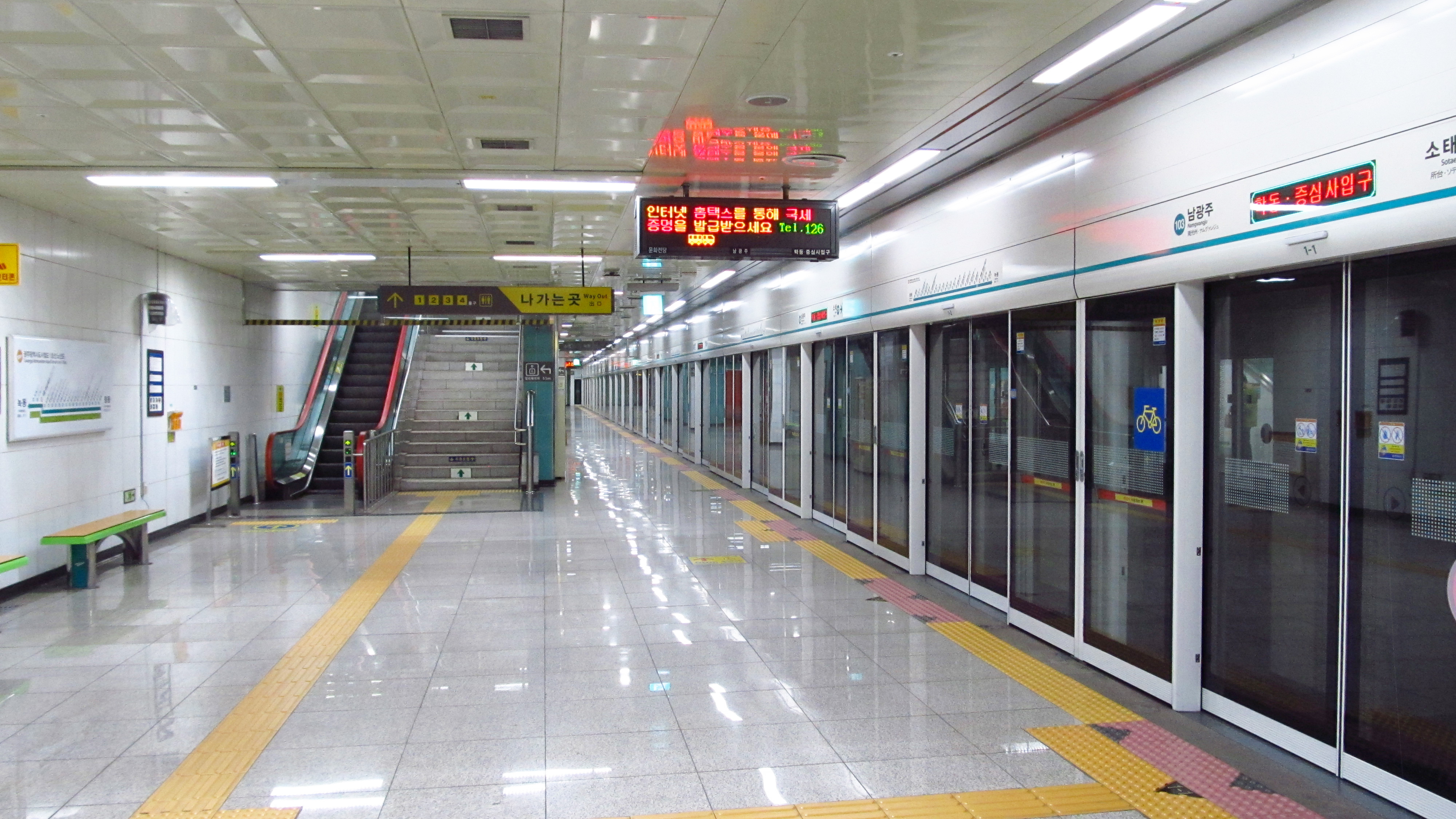 The platform at Hakdong-Jeungsimsa Station on Gwangju Metro Line 1 in Dong-gu, Gwangju, Republic of Korea(South Korea)